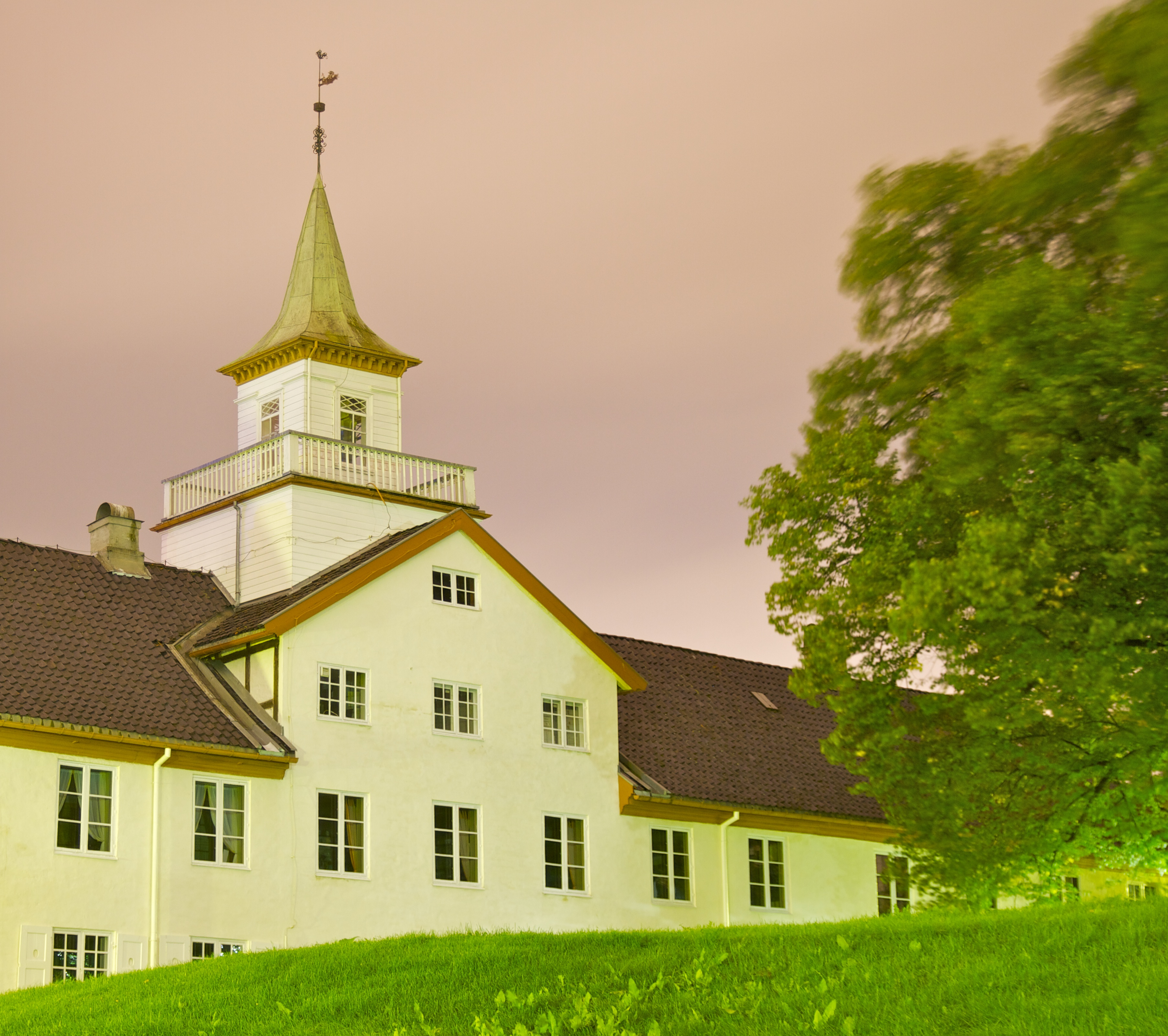 The mid 18th century Frogner Manor, Oslo, Norway.